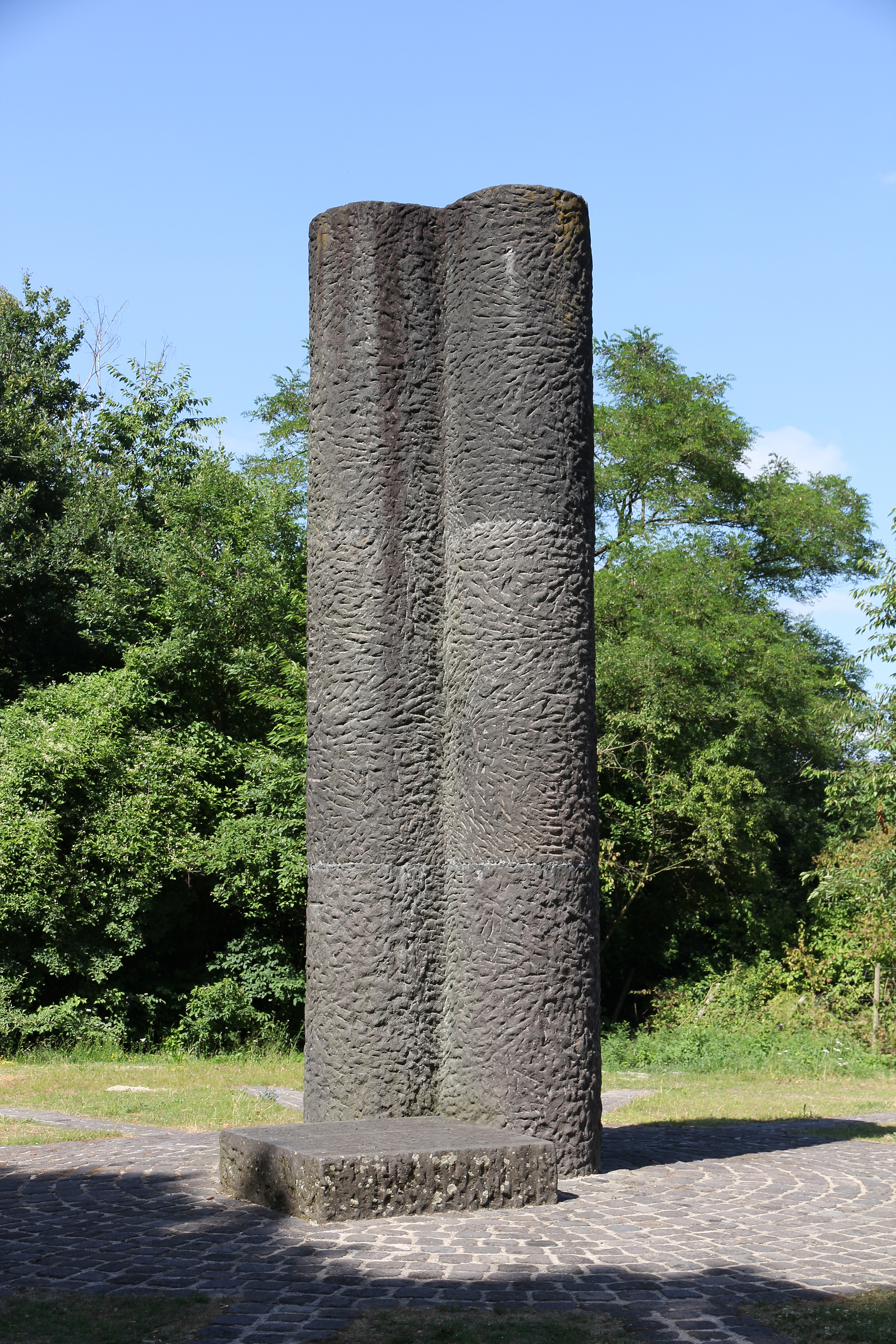 Rittersturz memorial in Koblenz